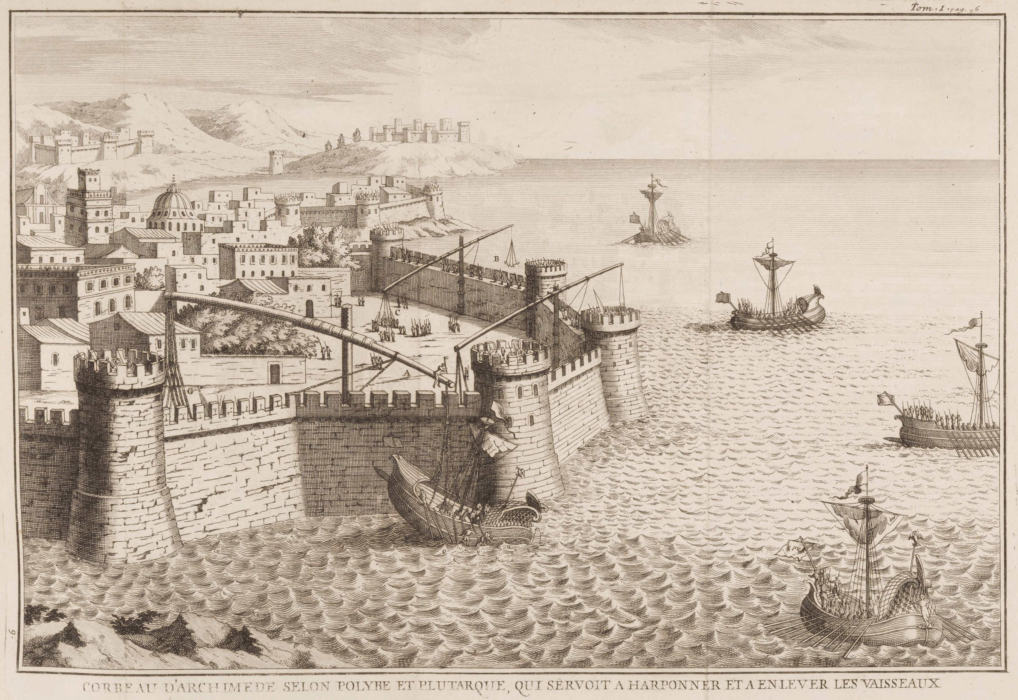 Reconstruction of Archimedes' Crow (Siege of syracuse)